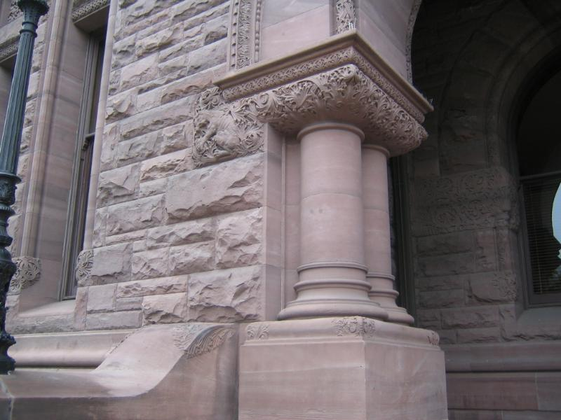 Queen's Park under external restoration.